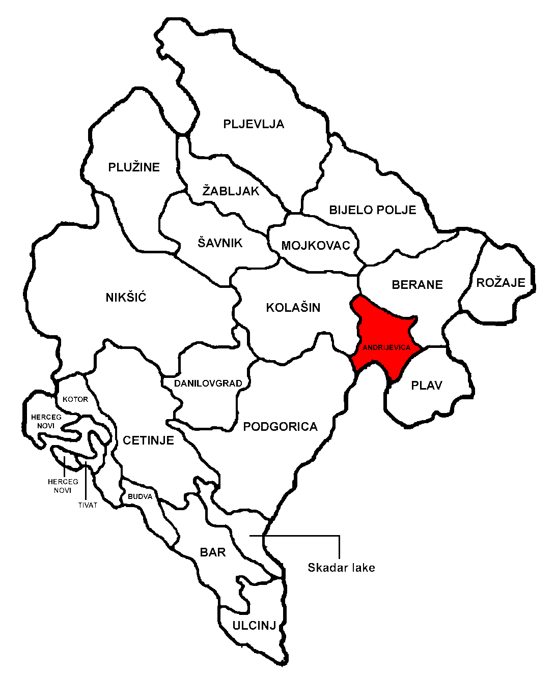 Location of Andrijevica within Montenegro